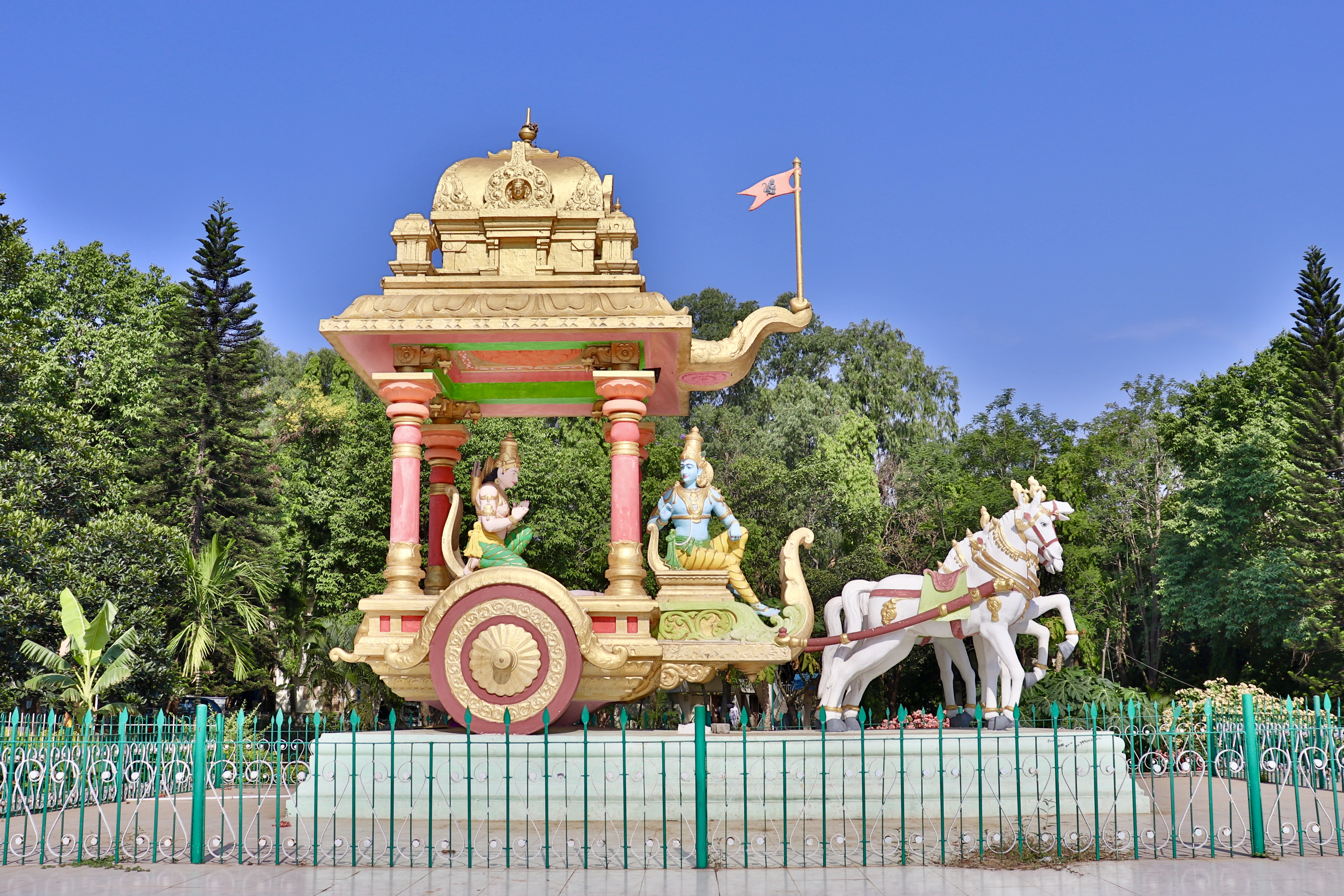 Arjuna's chariot in Geethopadesam park, Tirumala (May 2019)